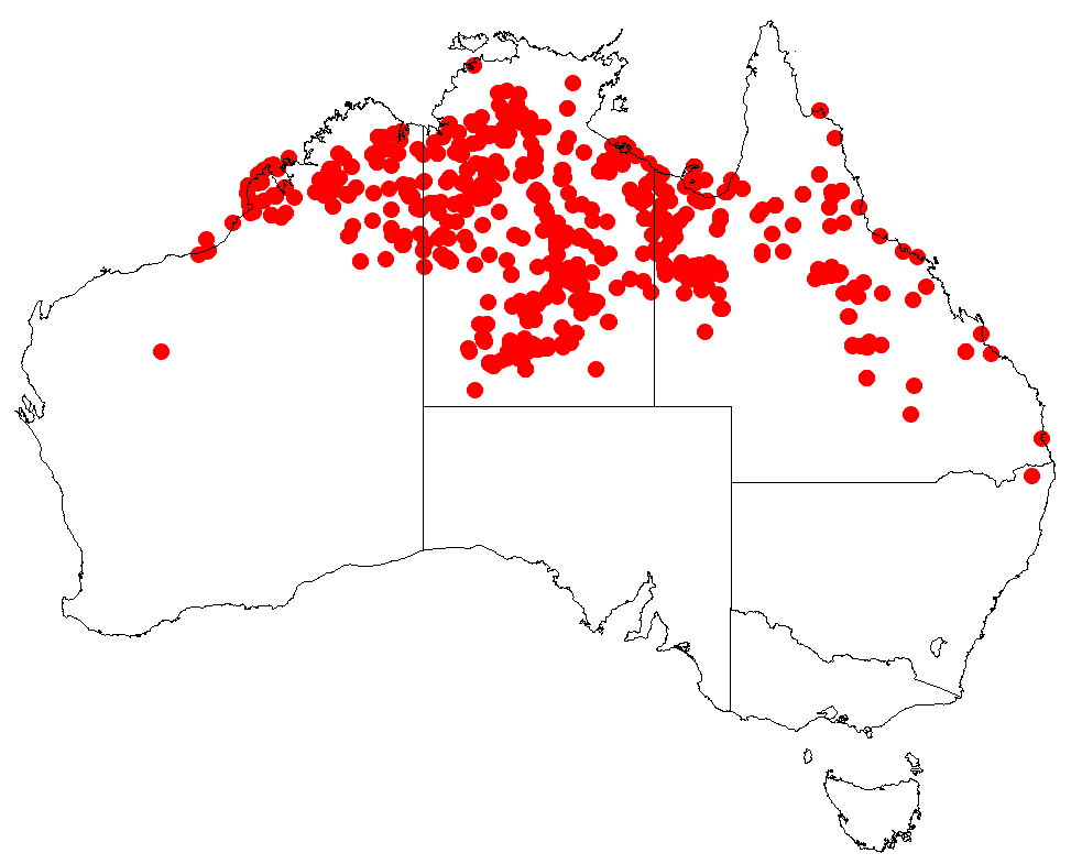 Lysiana spathulata occurrence data downloaded from AVH, 30 September 2018